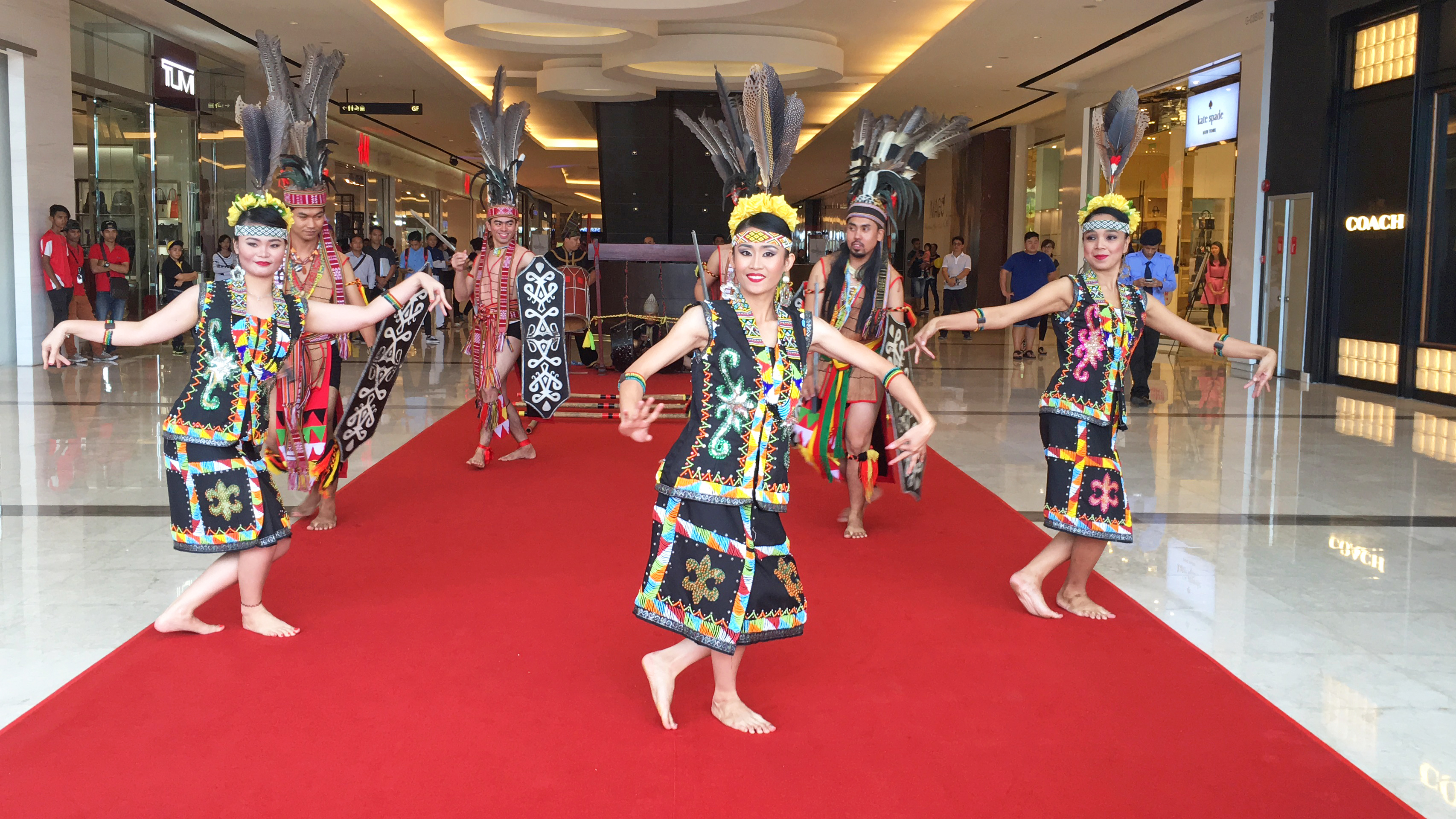 Dancing in Welcome Point